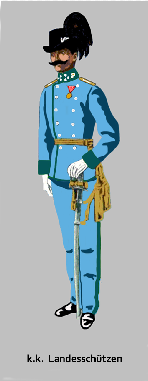 Captain of the k.k. Landwehr in Paradedress afrer 1908